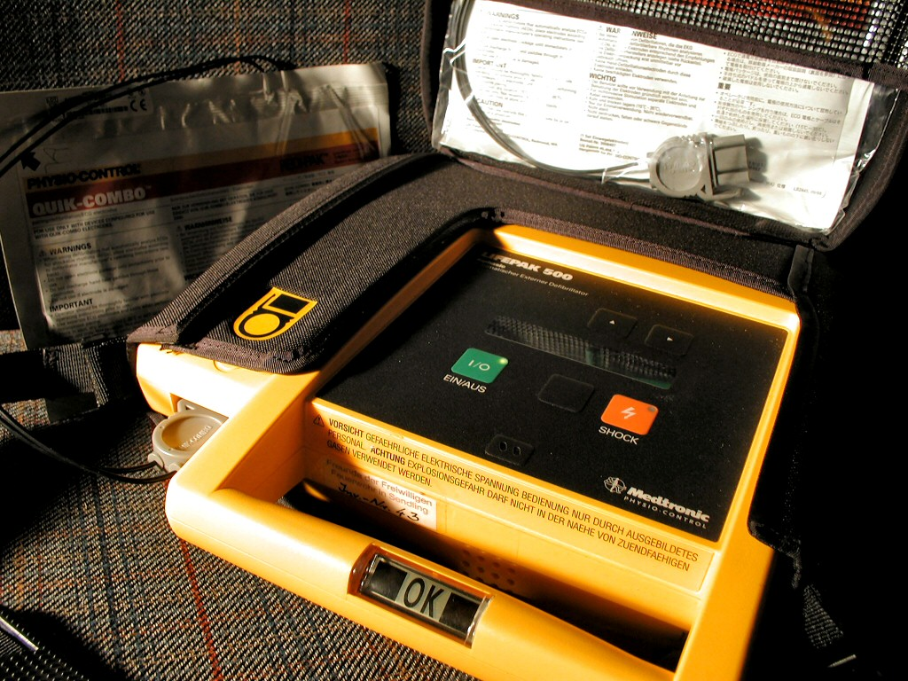 AED Medtronic LP 500 of the Munich Volunteer Fire Brigade - Sendling Department